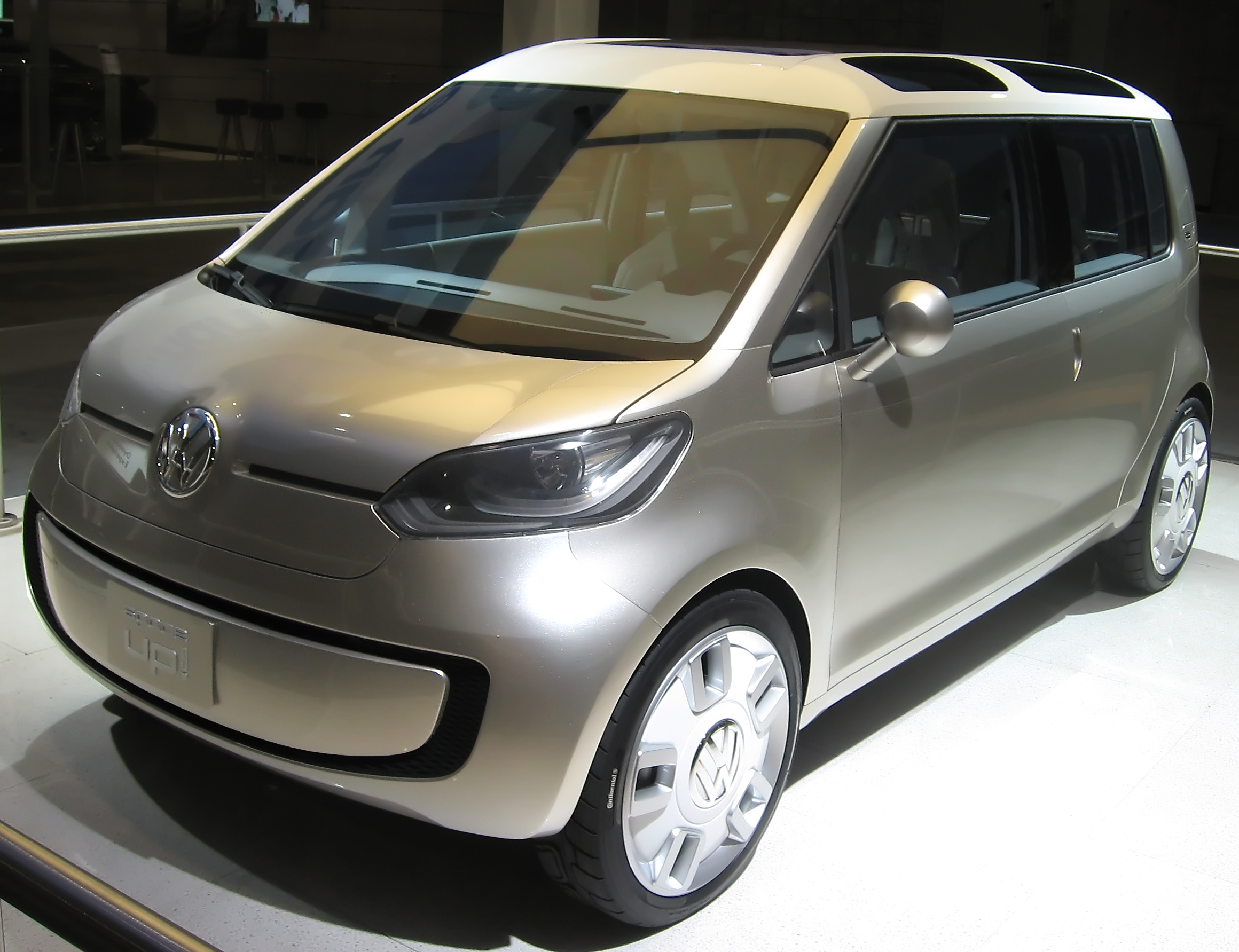 Volkswagen Space Up photographed at the 2008 Washington DC Auto Show.